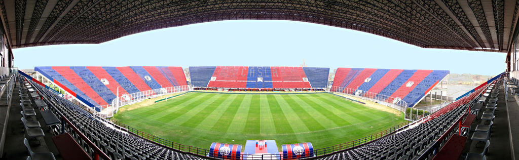 panoramic of stadium